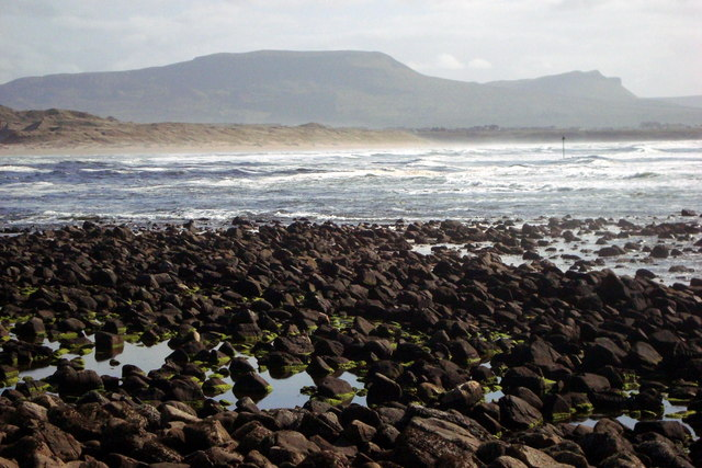 Shore at Kildoney I'm told this stretch, where the river Erne meets the Atlantic, has been a great place for salmon in the past. There is also a ship wreck of a coal boat here which can be seen at low tide. This view shows the sandy Tullan Strand, where Finner Camp military base is situated beneath the hills of Leitrim.